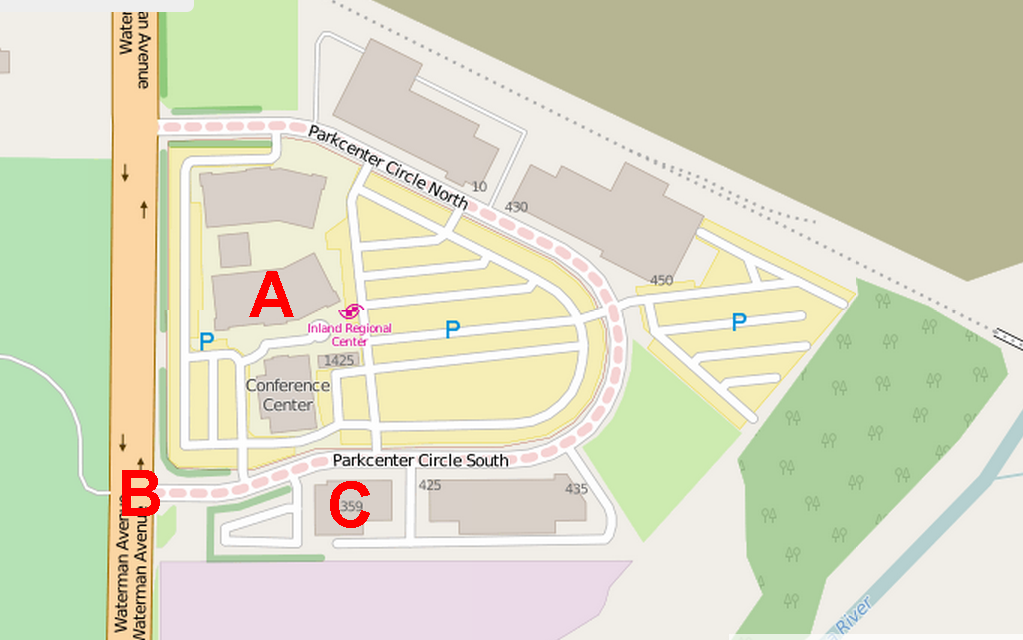 2015 San Bernardino shooting map location of mass shooting. A - Bldg #2 B - Injured people treated C - School for the blind where some took shelter. The Conference Center - Where the shooting happened.